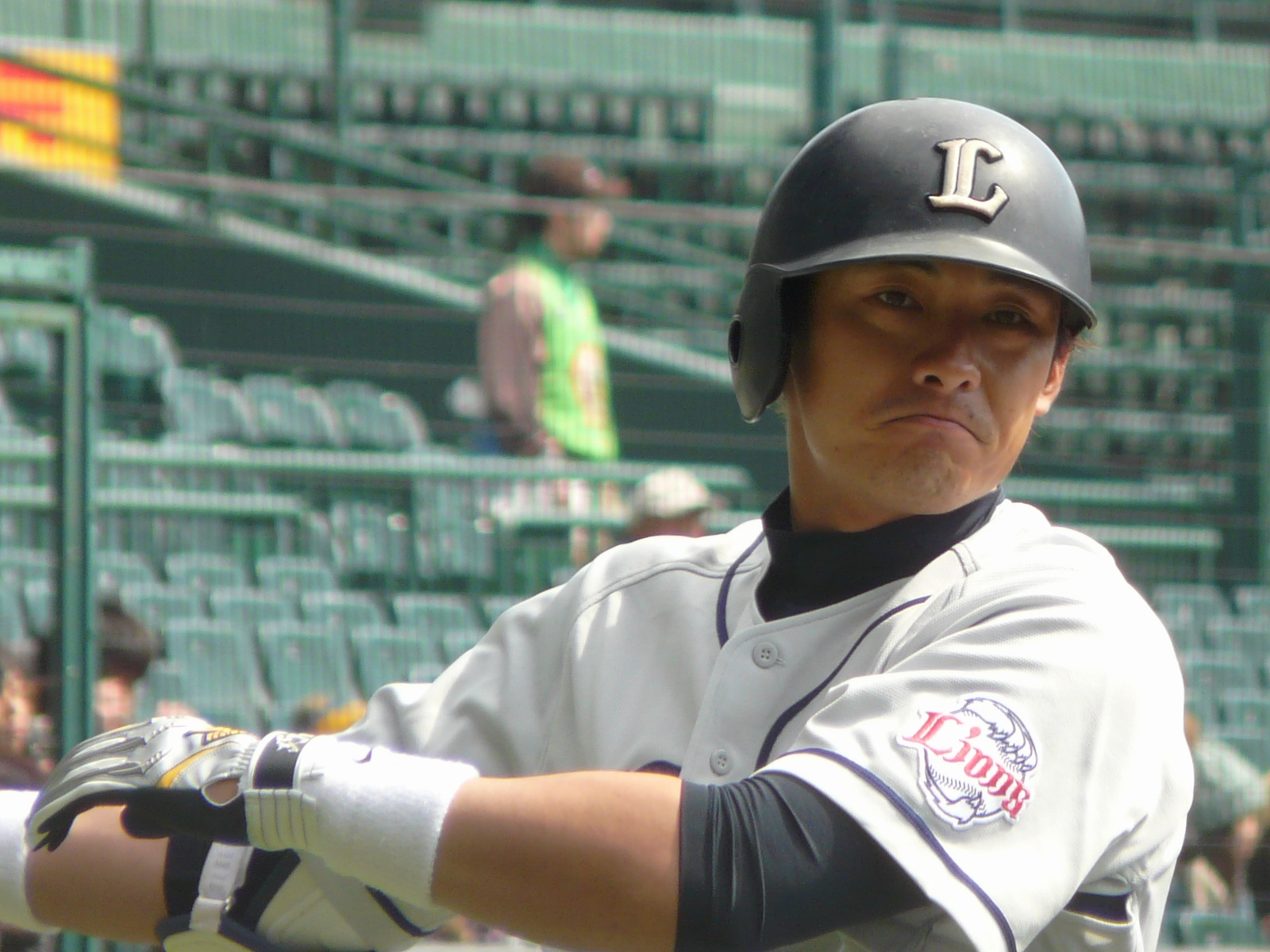 Takumi Kuriyama, outfielder of the Saitama Seibu Lions, at Hanshin Koshien Stadium.